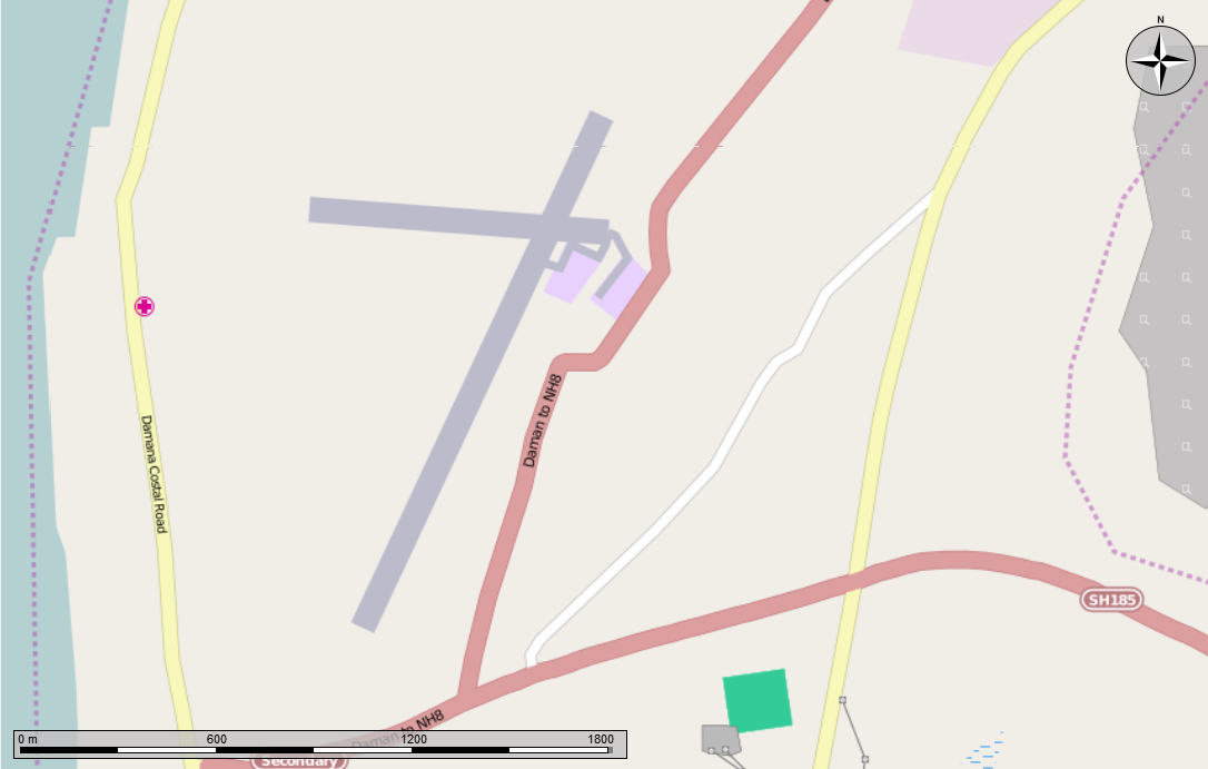 OpenStreet Map of the Daman Airport in India. Copied from the Marble program.